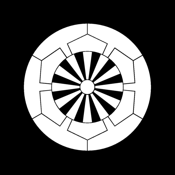 Japanese family crest "Sakakibara Genji-Guruma", a wheel (kuruma), used by Sakakibara clan.